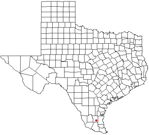 Rachal, Texas location map; created with the GIMP. Made by User:Acntx.